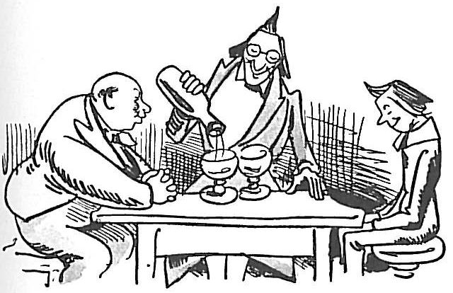 drawing by Wilhelm Busch